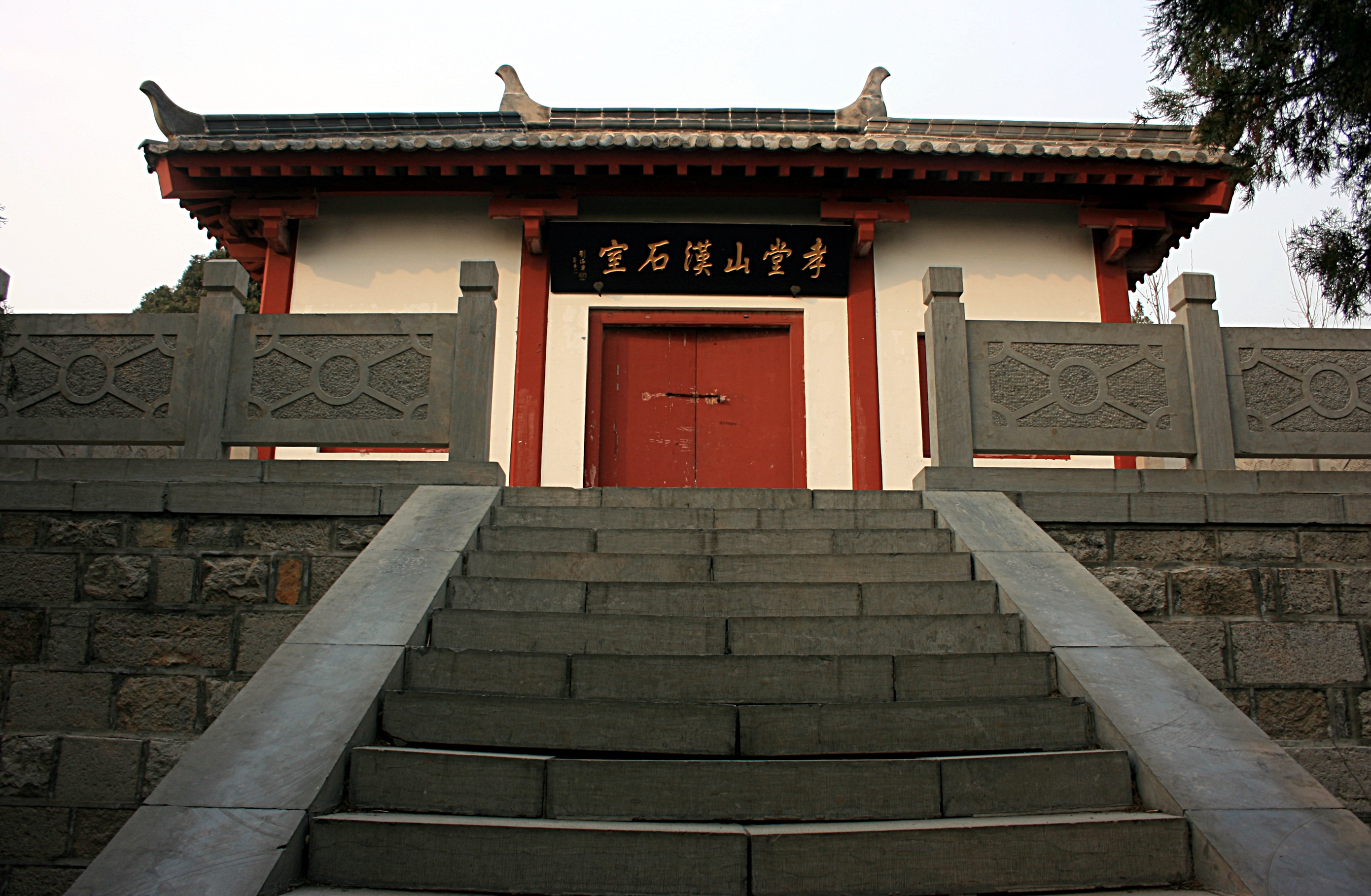 Photograph of the entrance building to the Xiaotang Mountain Han Shrine, south of the village of Xiaolipu, Changqing District, Jinan City, Shandong Province, China.